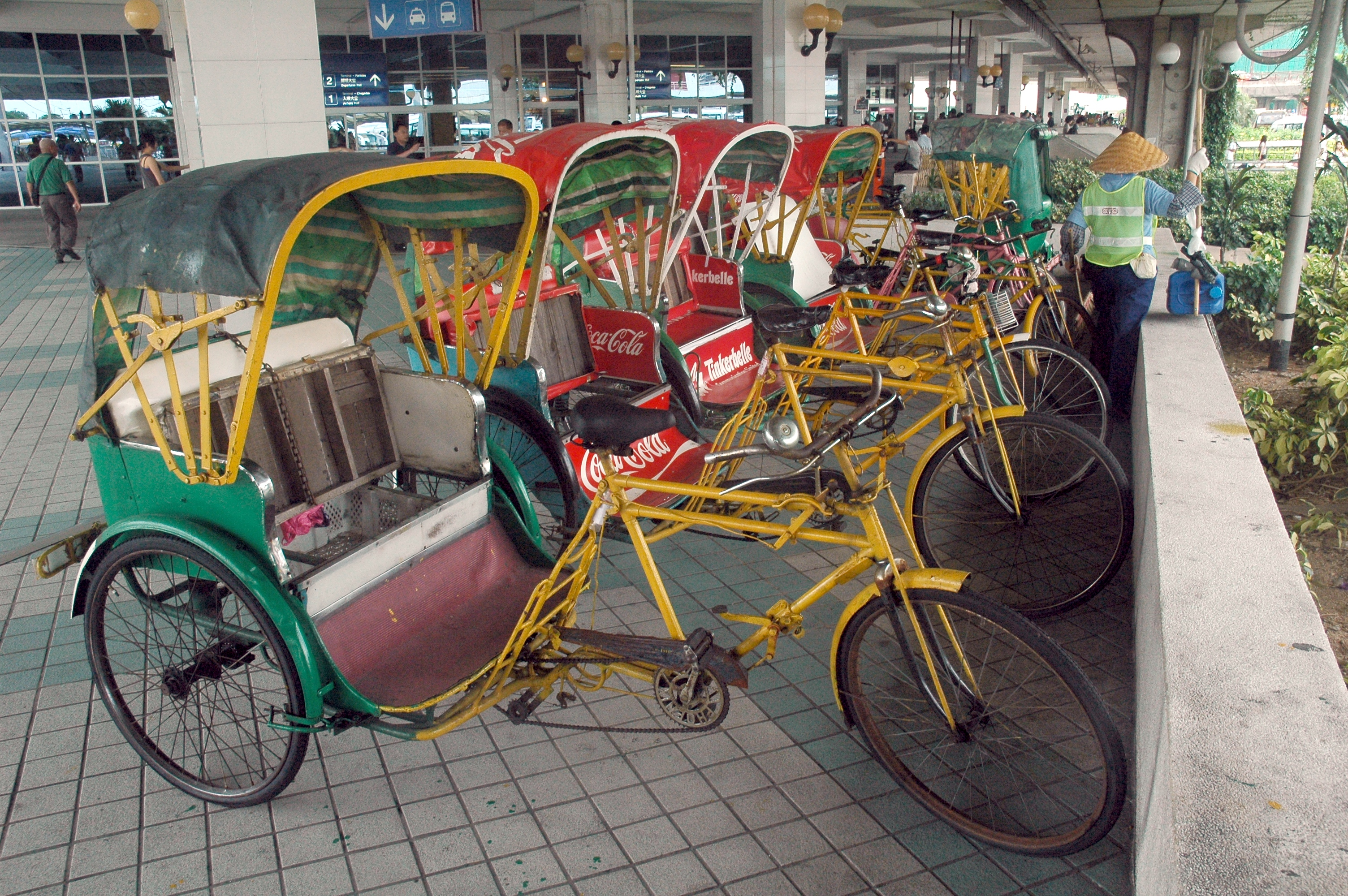 Triciclos (rickshaws) at Terminal Maritimo, Macau.